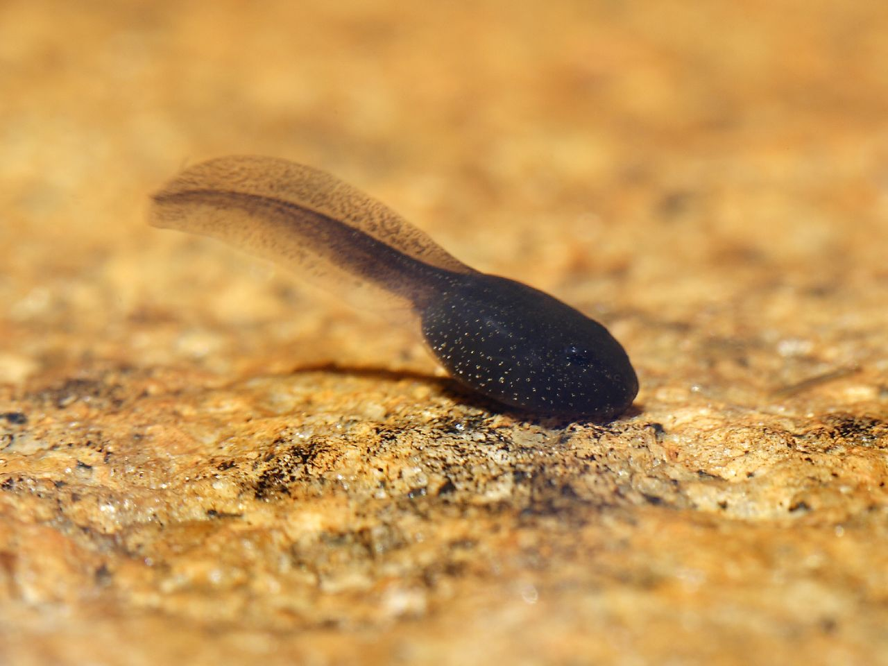 Tadpole. The two ultimate symbols of summer for me are: puddles full of tadpoles (baby frogs), and fields filled with butterflies.